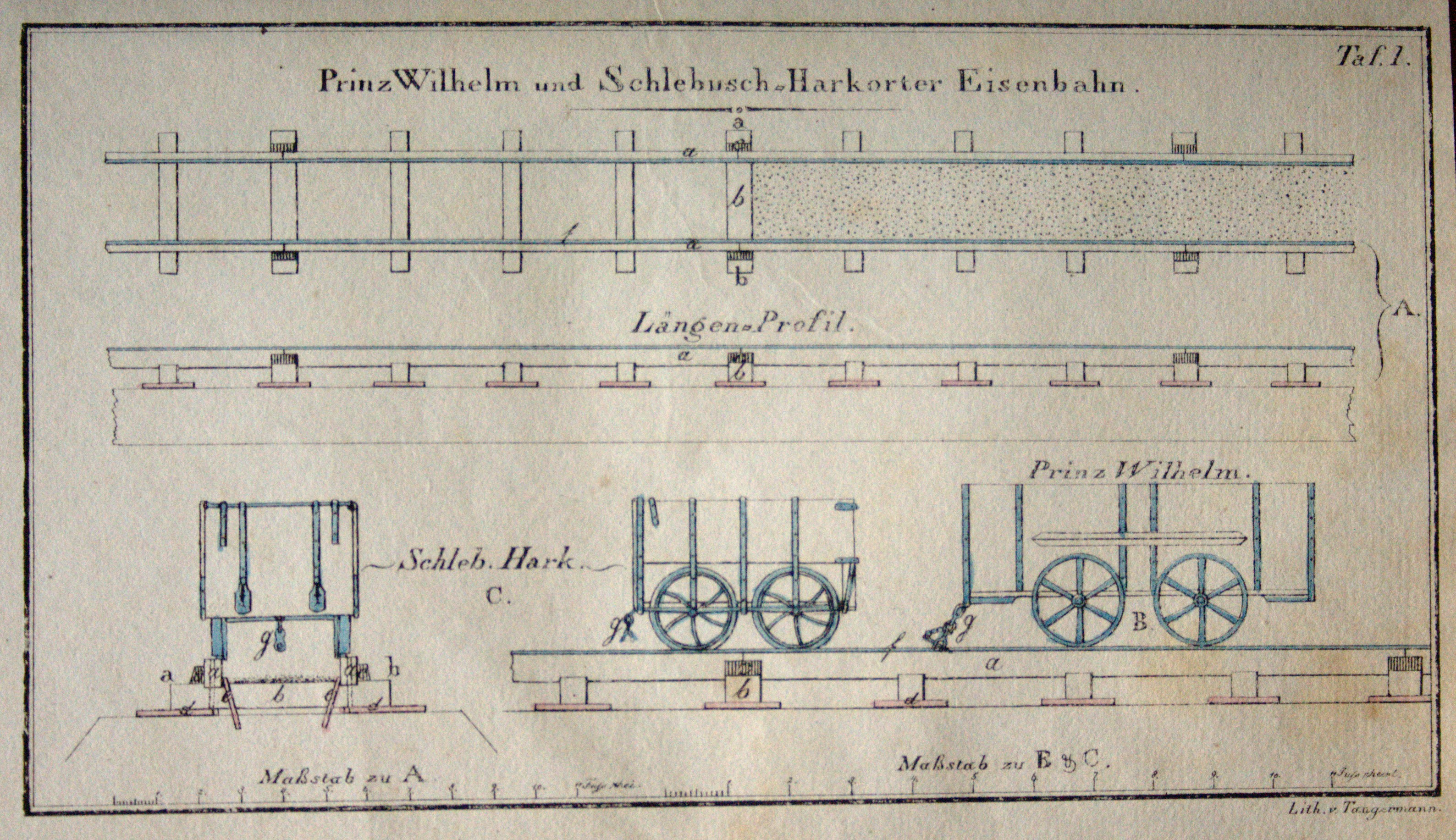 Tracks and cars of Prince William Railway and Schlebusch-Harkort Railway. Measurements in rhenanian feet (0.3138535 m)